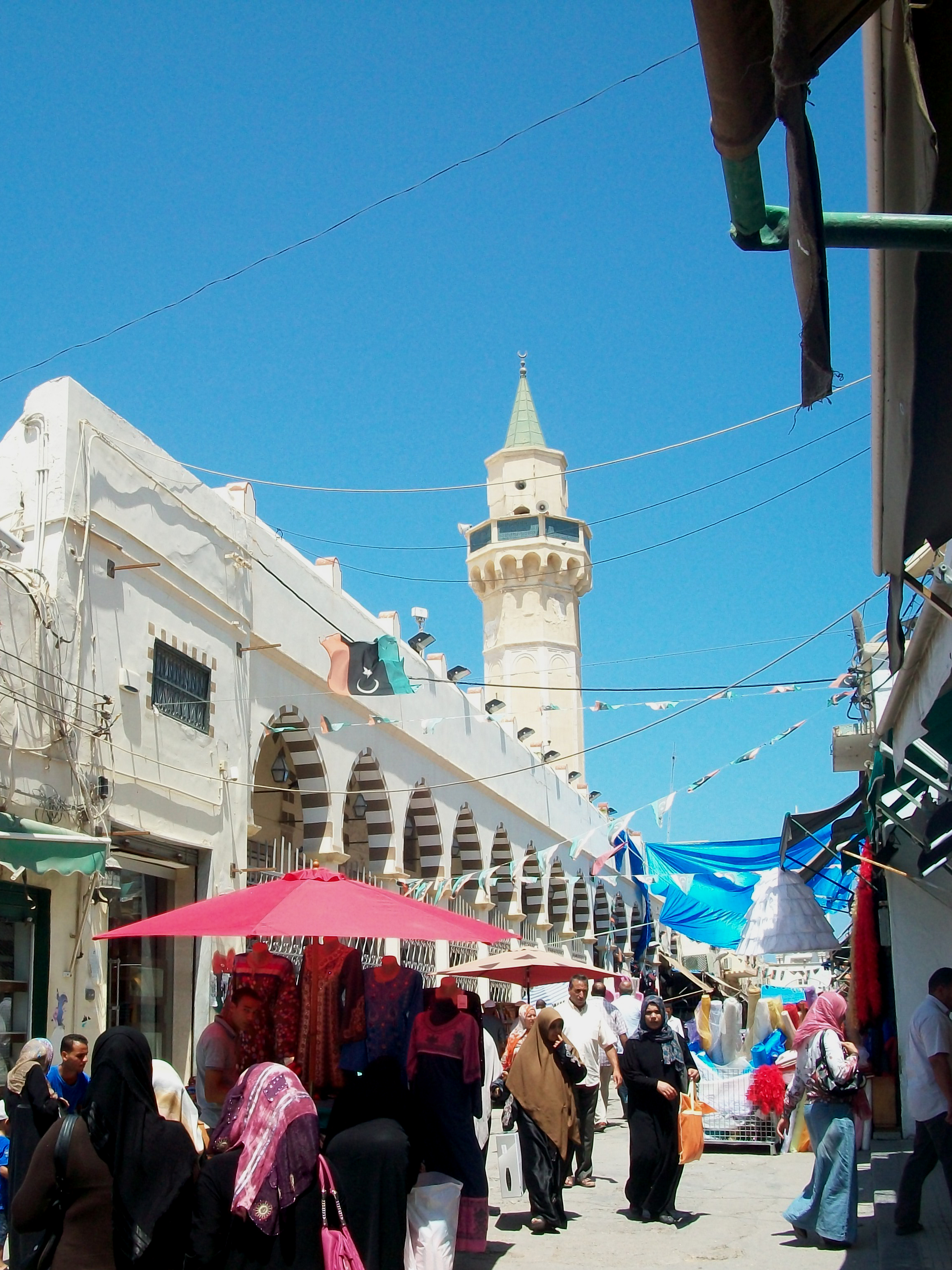 Ahmed Pasha Karamanli Mosque on Souq El Mushir Street in Libya's capital Tripoli.